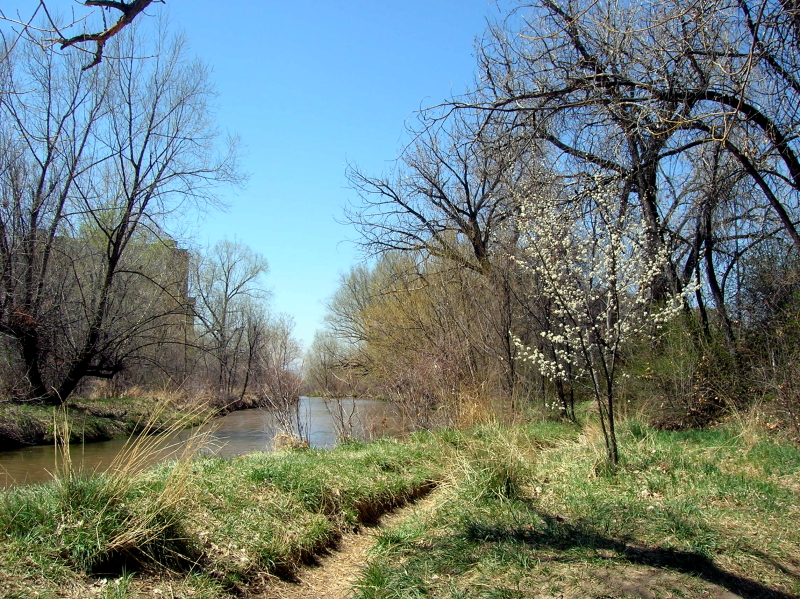 A view looking west from inside Cherry Creek. Photo taken several hundred yards east of Cherry Street in Glendale, Colorado.